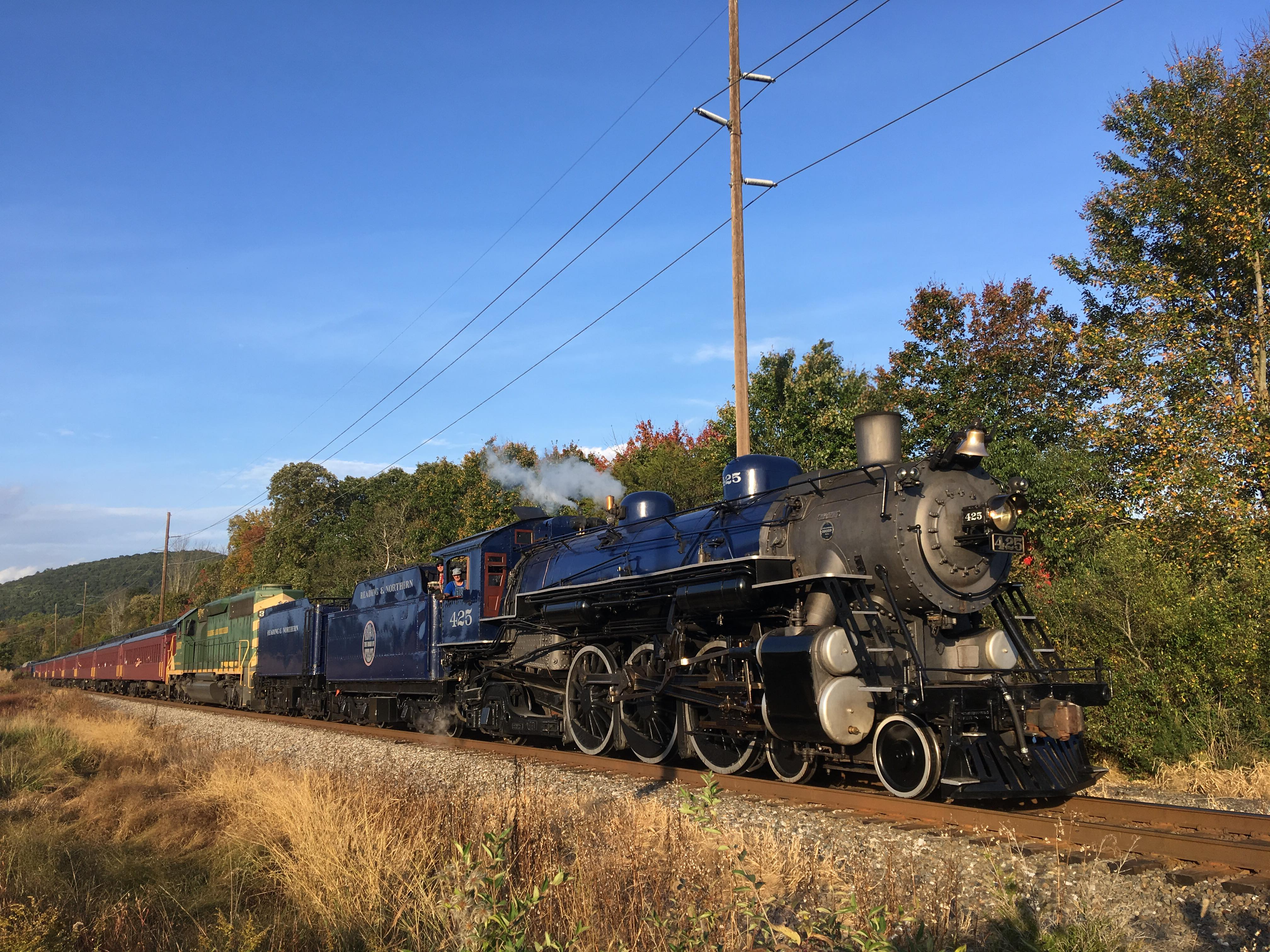 Reading, Blue Mountain & Northern 4-6-2 425 is on the return of a fall color trip from Jim Thorpe to Reading. The blue Pacific will soon be at the R&N headquarters at Port Clinton, PA.